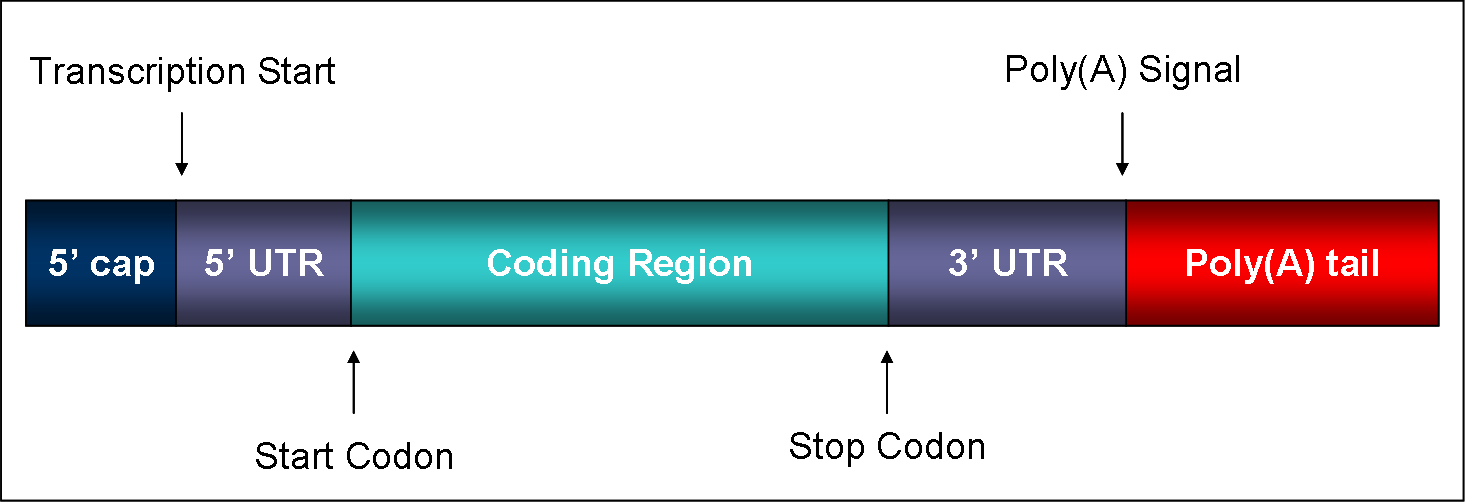 The structure of a mature eukaryotic mRNA. A fully processed mRNA includes the 5' cap, 5' UTR, coding region, 3' UTR, and poly(A) tail.